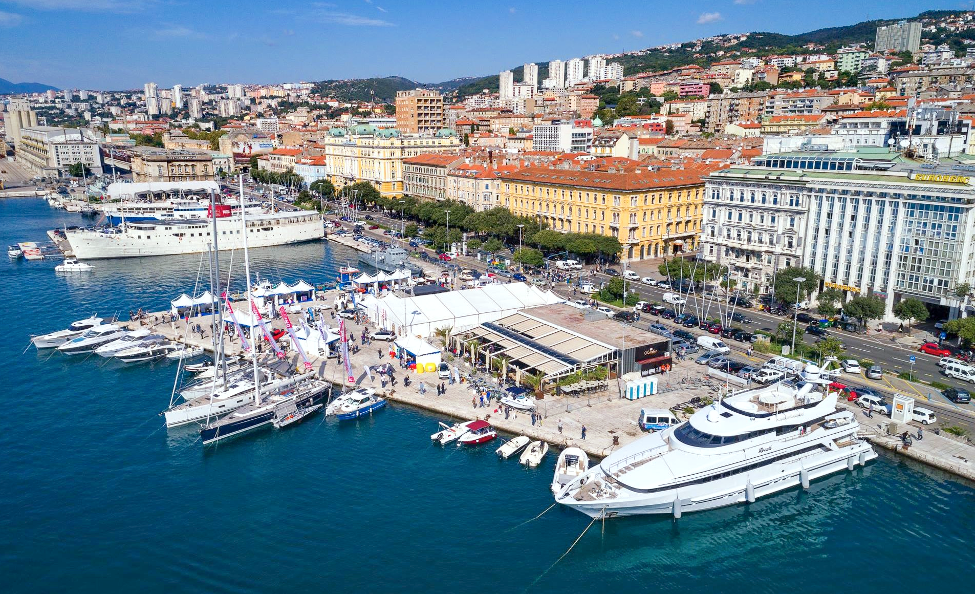 Riva Rijeka